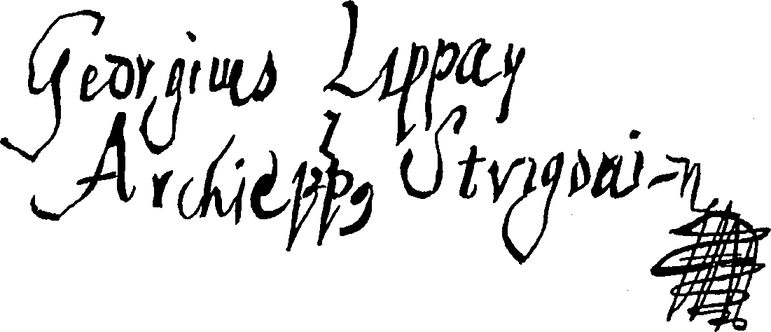 signature of György Lippay, archbishop of Esztergom.